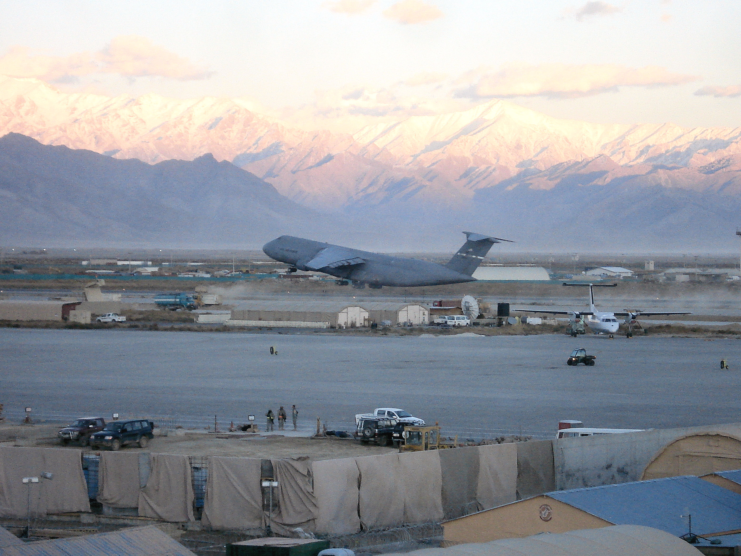 A C-5 Galaxy takes off from a runway at Bagram Air Base, Afghanistan. In recent years, the 22nd Airlift Squadron has participated in missions in Afghanistan supporting Operation Enduring Freedom.